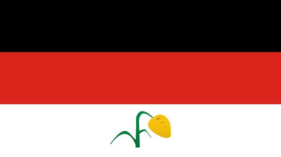 Flag of the Kunama people.